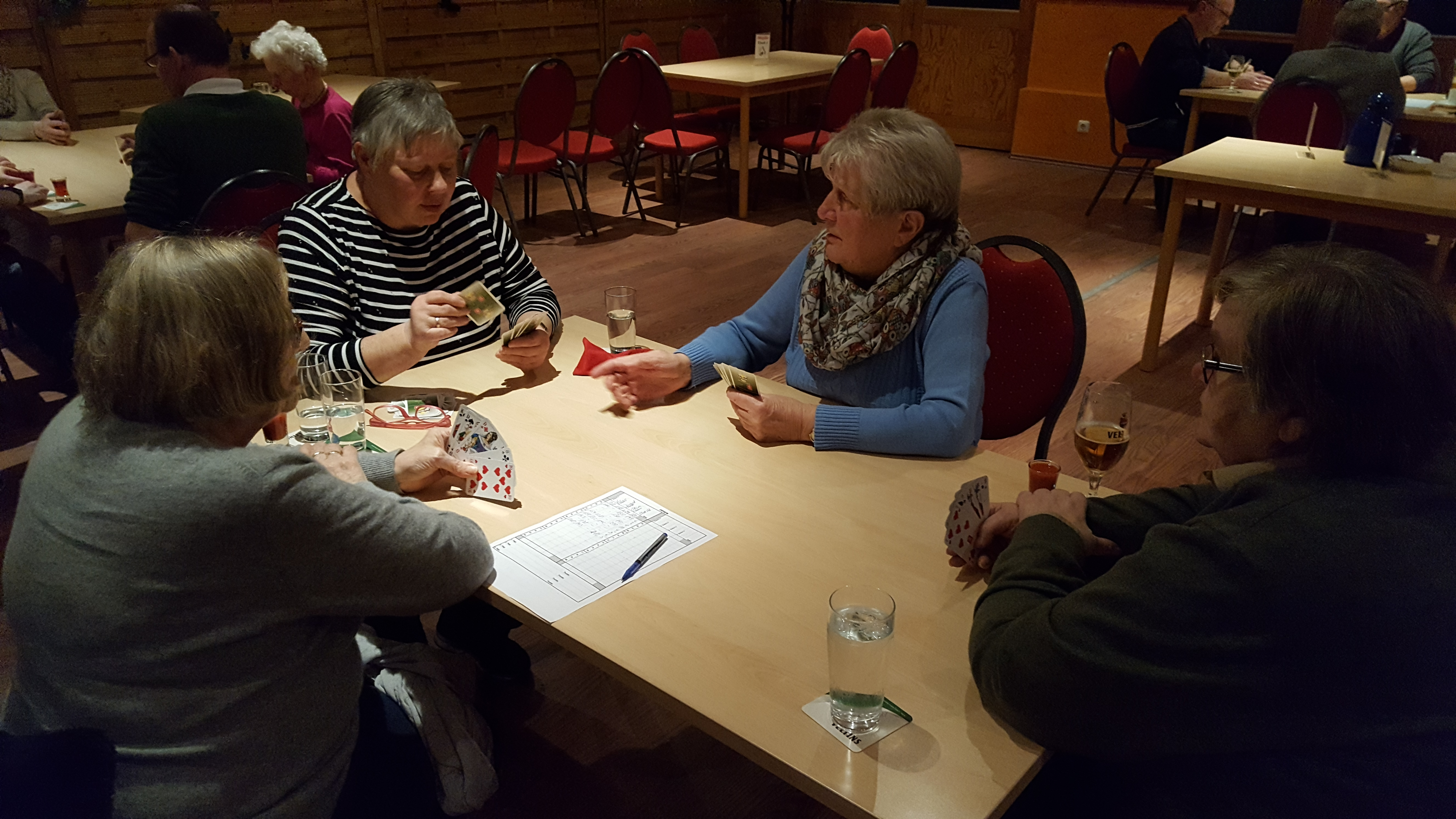 A game of Fipsen in the old community hall at Grossenaspe, North Germany.